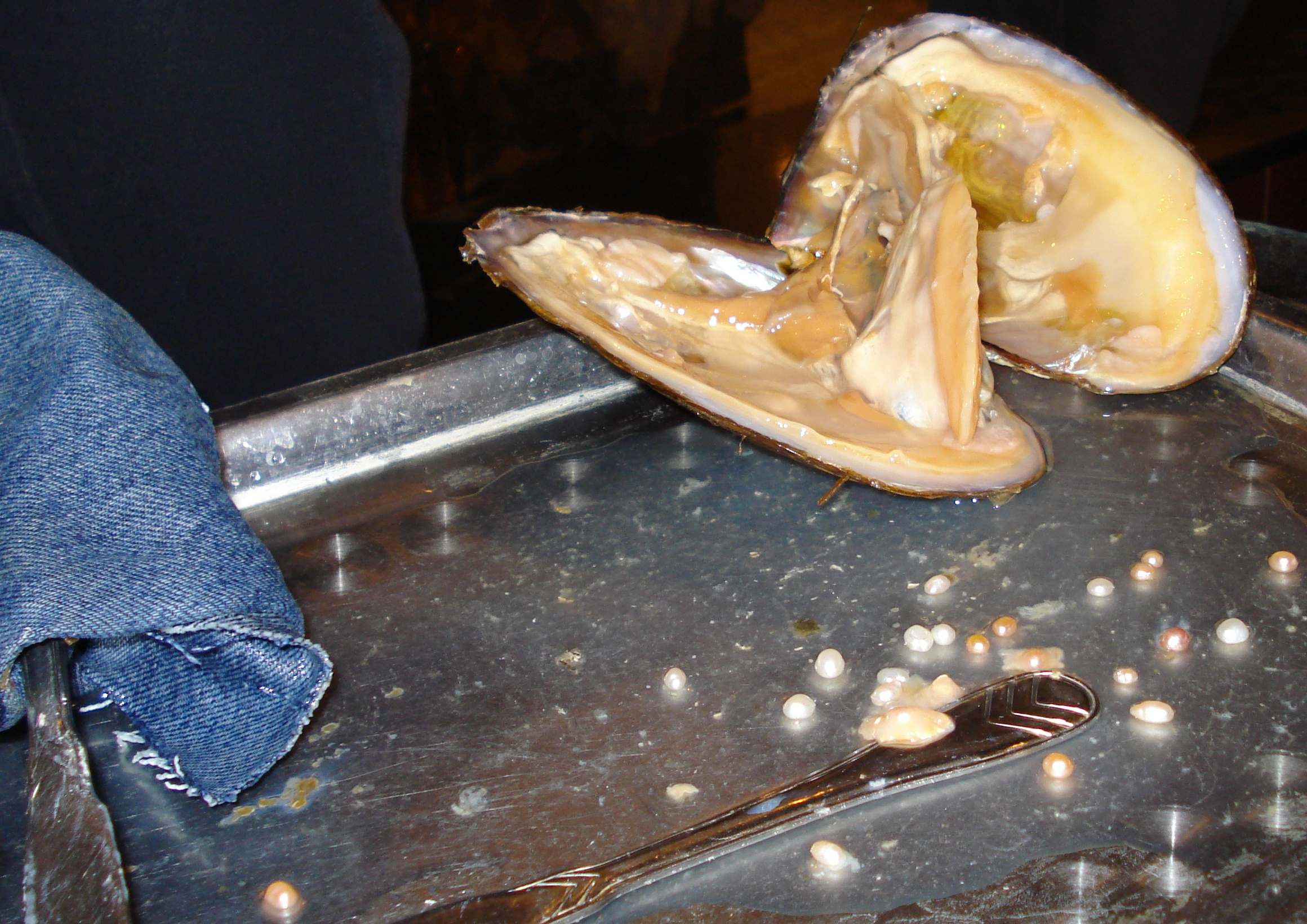 cultured freshwater pearls manufacture near Bejing